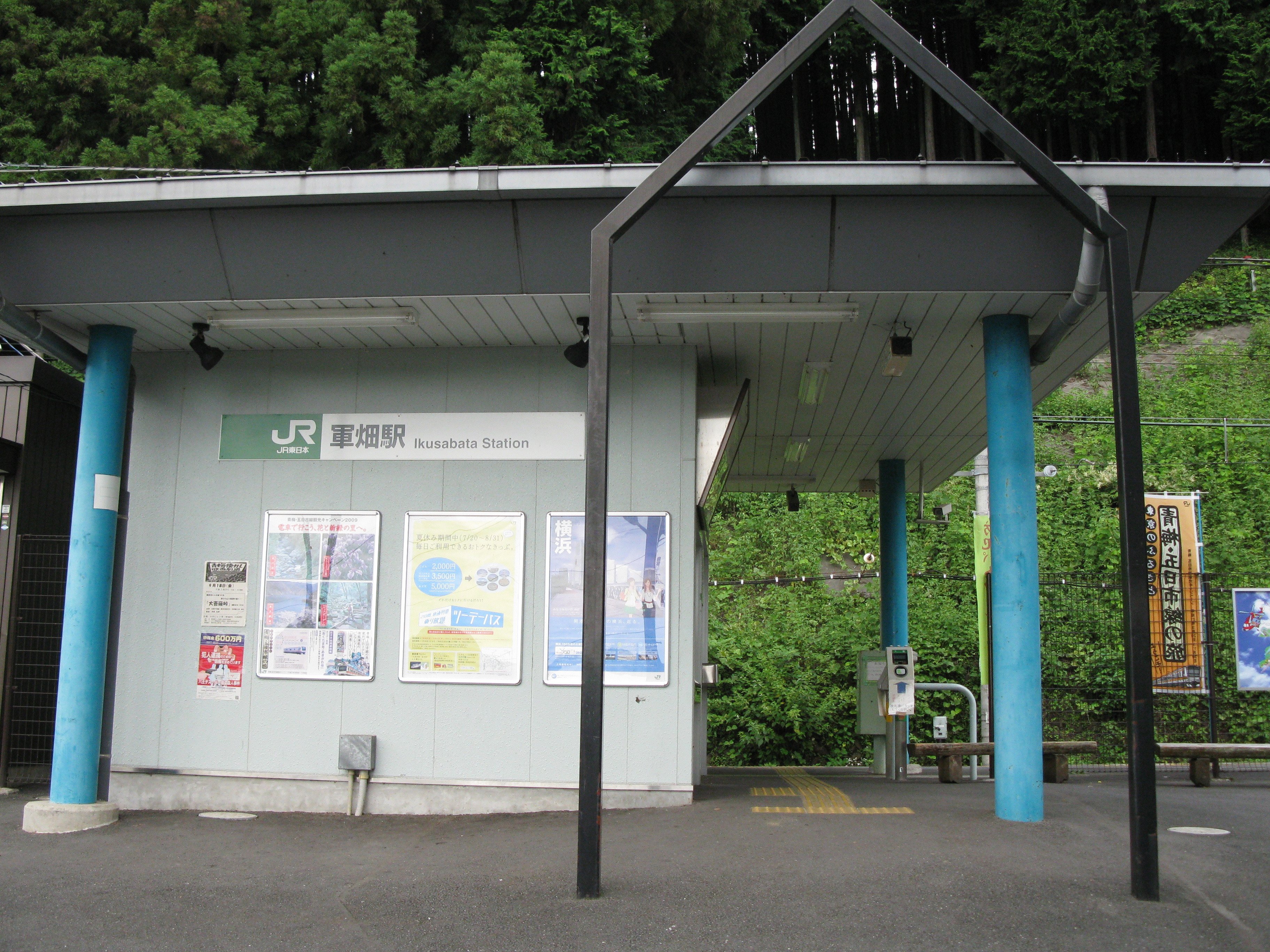 Ikusabata Station entrance (East Japan Railway Ōme Line)